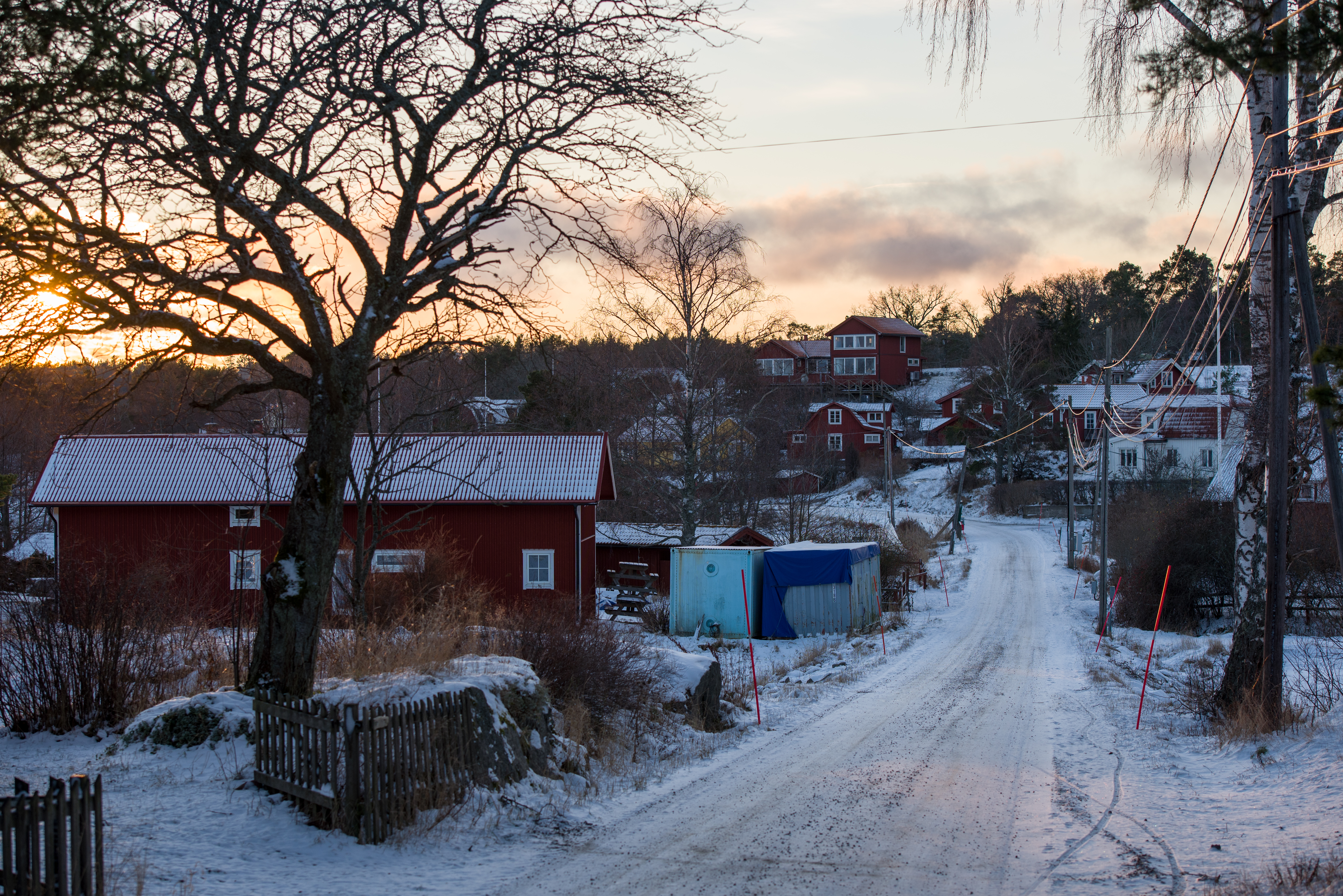 Ramsmora, a village at Möja island, Stockholm archipelago.